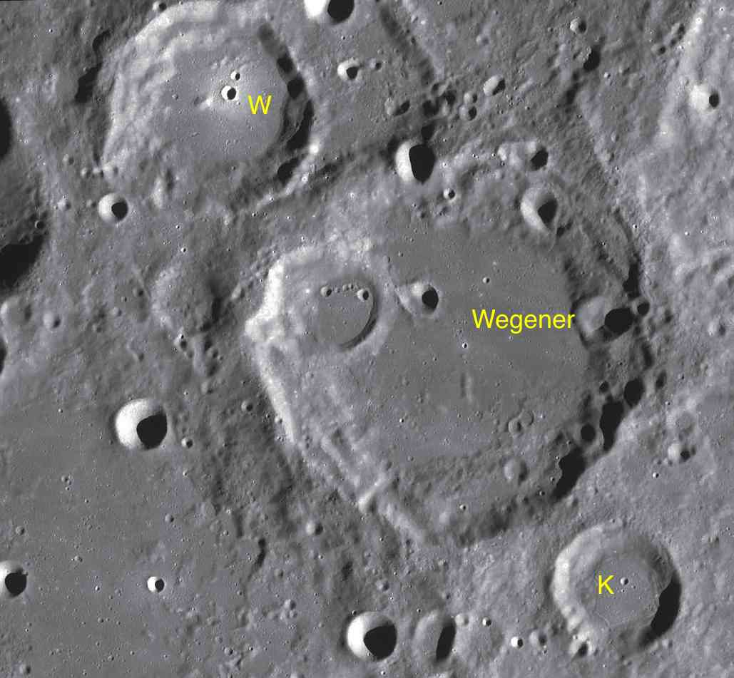 Part of chart LAC-35 used for the presentation.